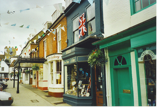 Shop Fronts, Broad Street, New Alresford. Broad Street is full of colour-washed Georgian houses and has been stated to be Hampshire's best street, architecturally. Above, the buildings have been decorated to celebrate the Queen's Golden Jubilee. The street is wide, of course - large wool markets were held in the town during the 14th Century.